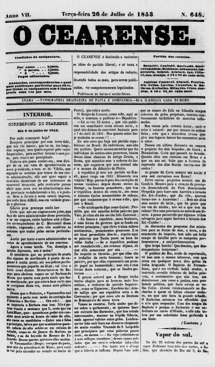 First page of the newspaper O Cearense of July 26, 1853.